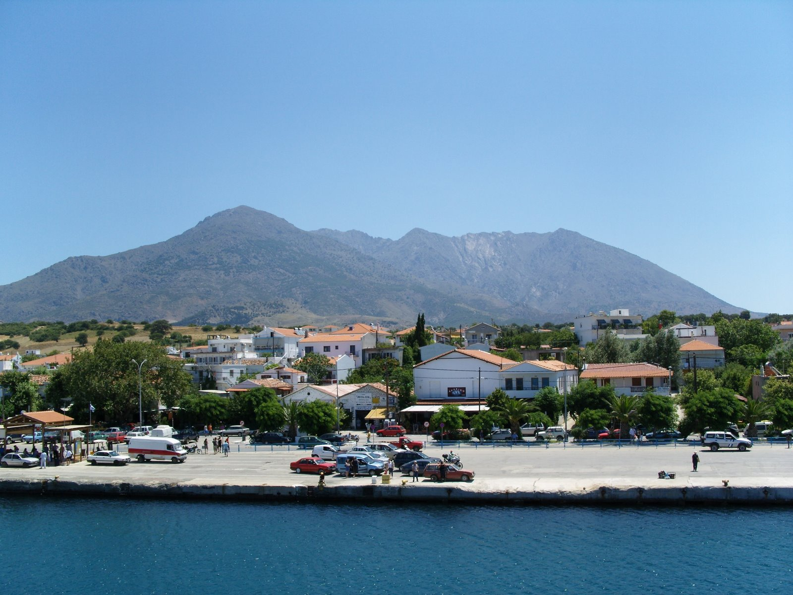 Samothrace - View to Saos mountain. 2007